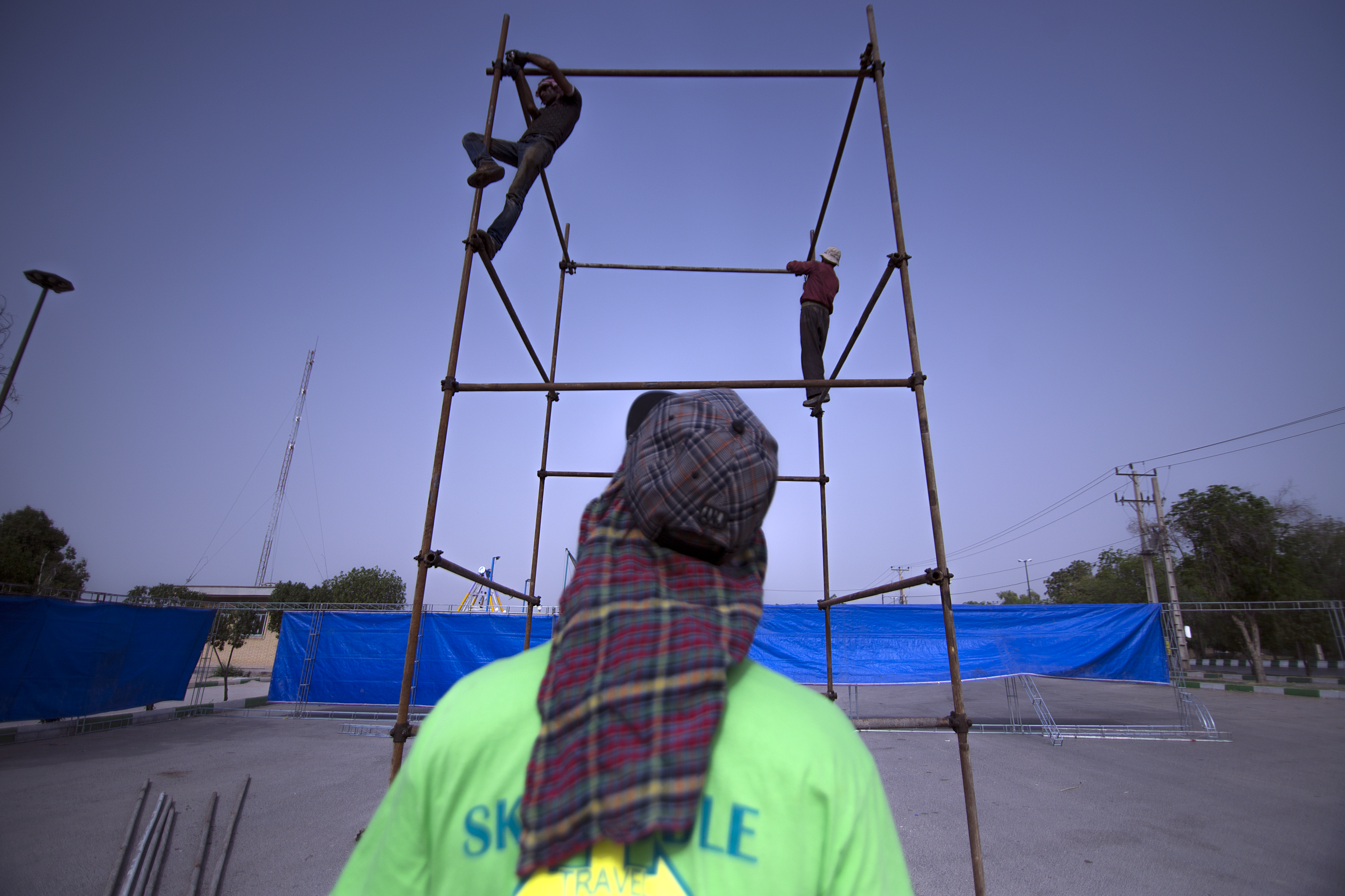 Scaffolding, also called scaffold or staging is a temporary structure used to support a work crew and materials to aid in the construction, maintenance and repair of buildings, bridges and all other man made structures.